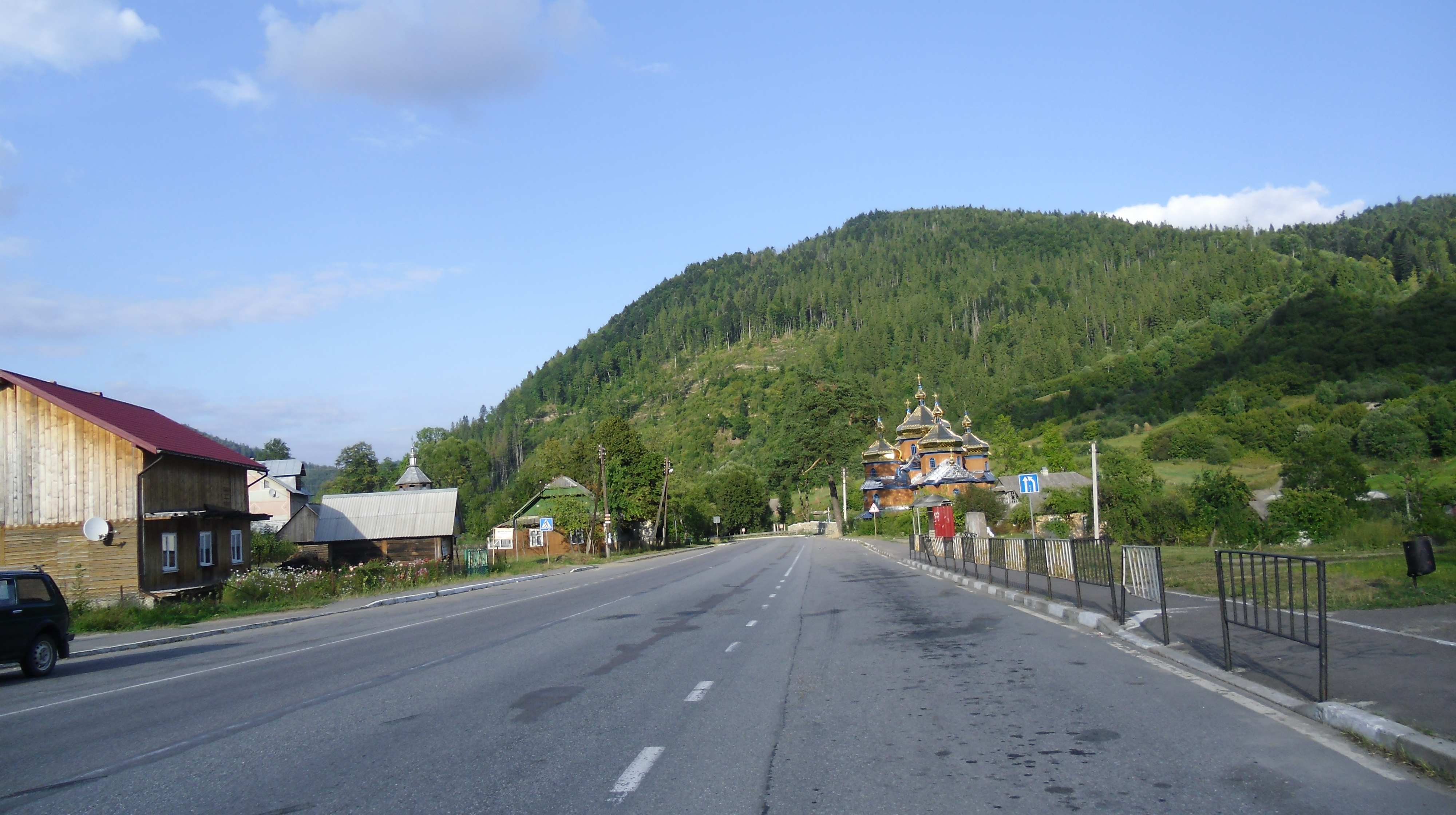 The village Kozyova along the Highway M06. Skole Raion.